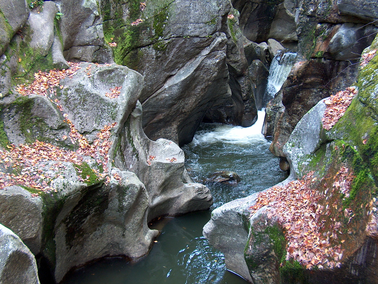 Sculptured Rocks on the Cockermouth River in New Hampshire. Photo by Ken Gallager, October 4, 2008.